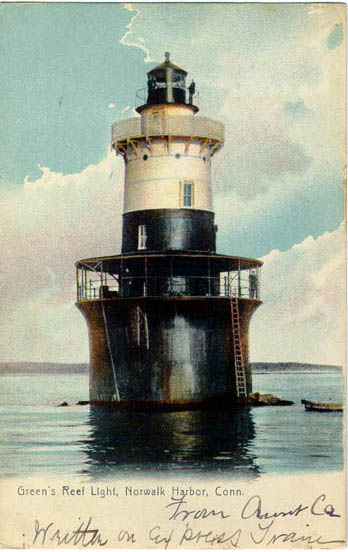 Greens Ledge Lighthouse, Norwalk Connecticut, 1907, Postcard